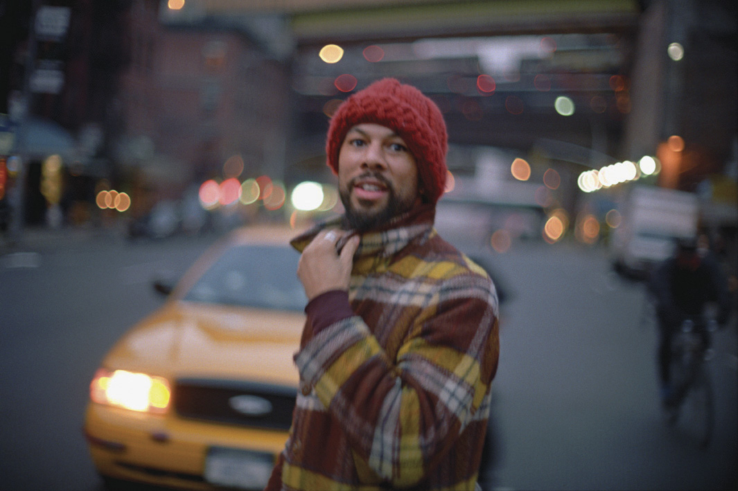 Rapper Common Sense in NYC 2003